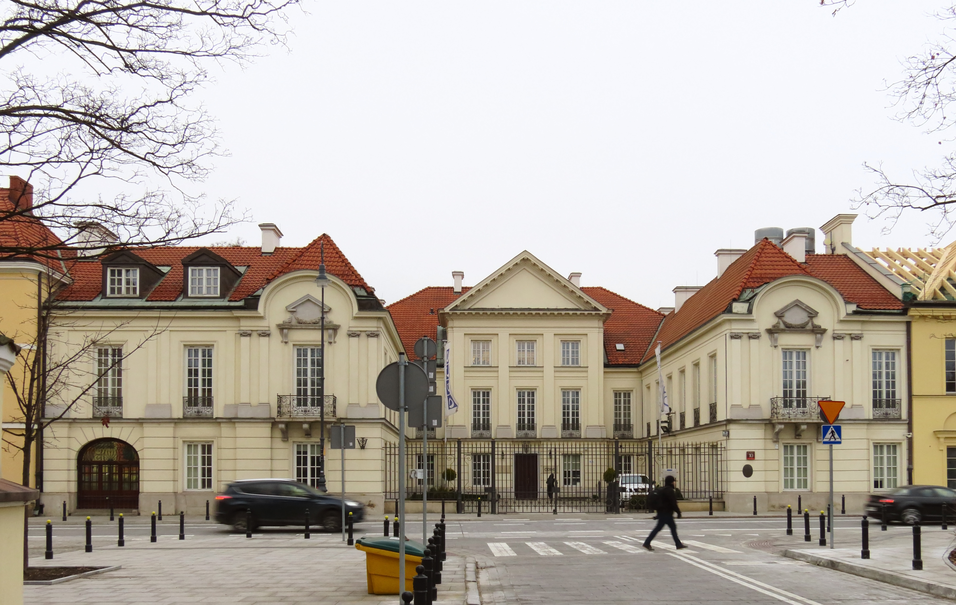 Młodziejowski Palace in Warsaw (10 Miodowa street)